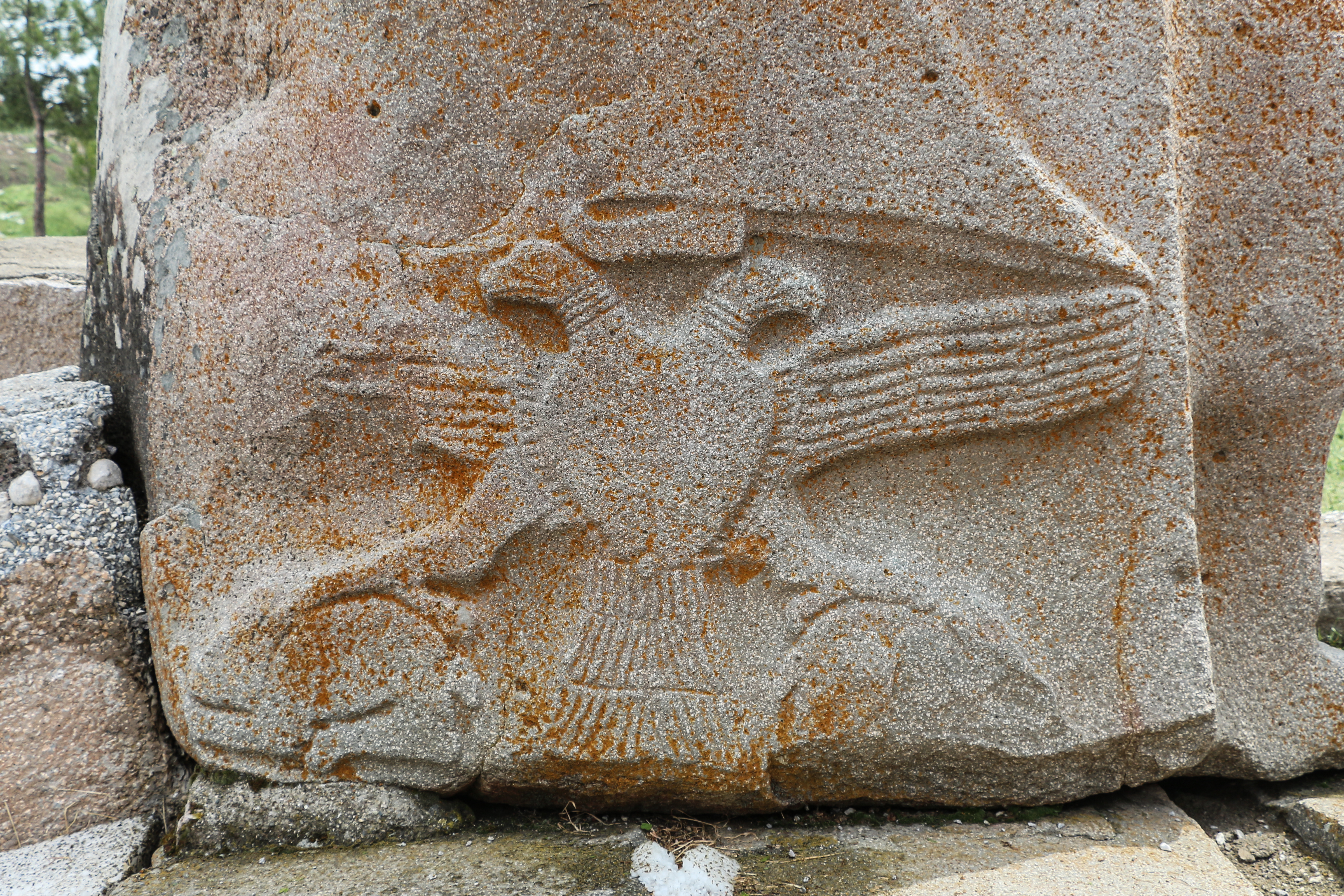 Relief representing a two-headed eagle on the sphinx located at the right of the Sphinx Gate, Alaca Höyük, Turkey